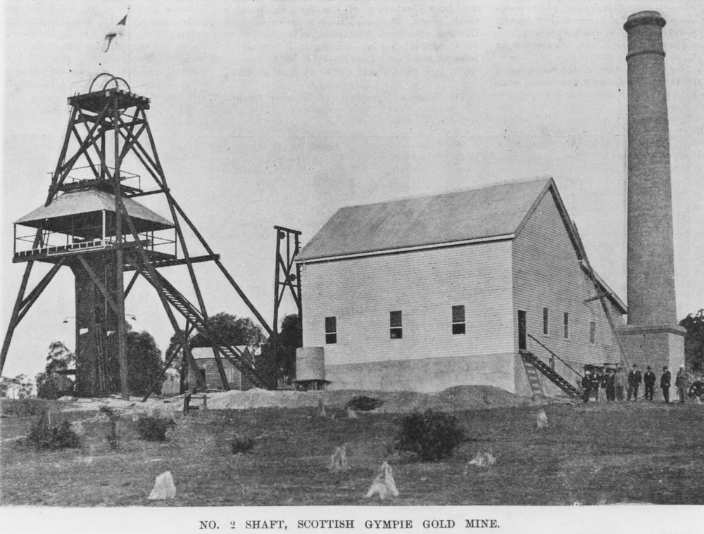 Scottish Gympie Gold Mine, No. 2 shaft, 1900 No. 2 shaft and mine buildings, including a tall brick chimney.